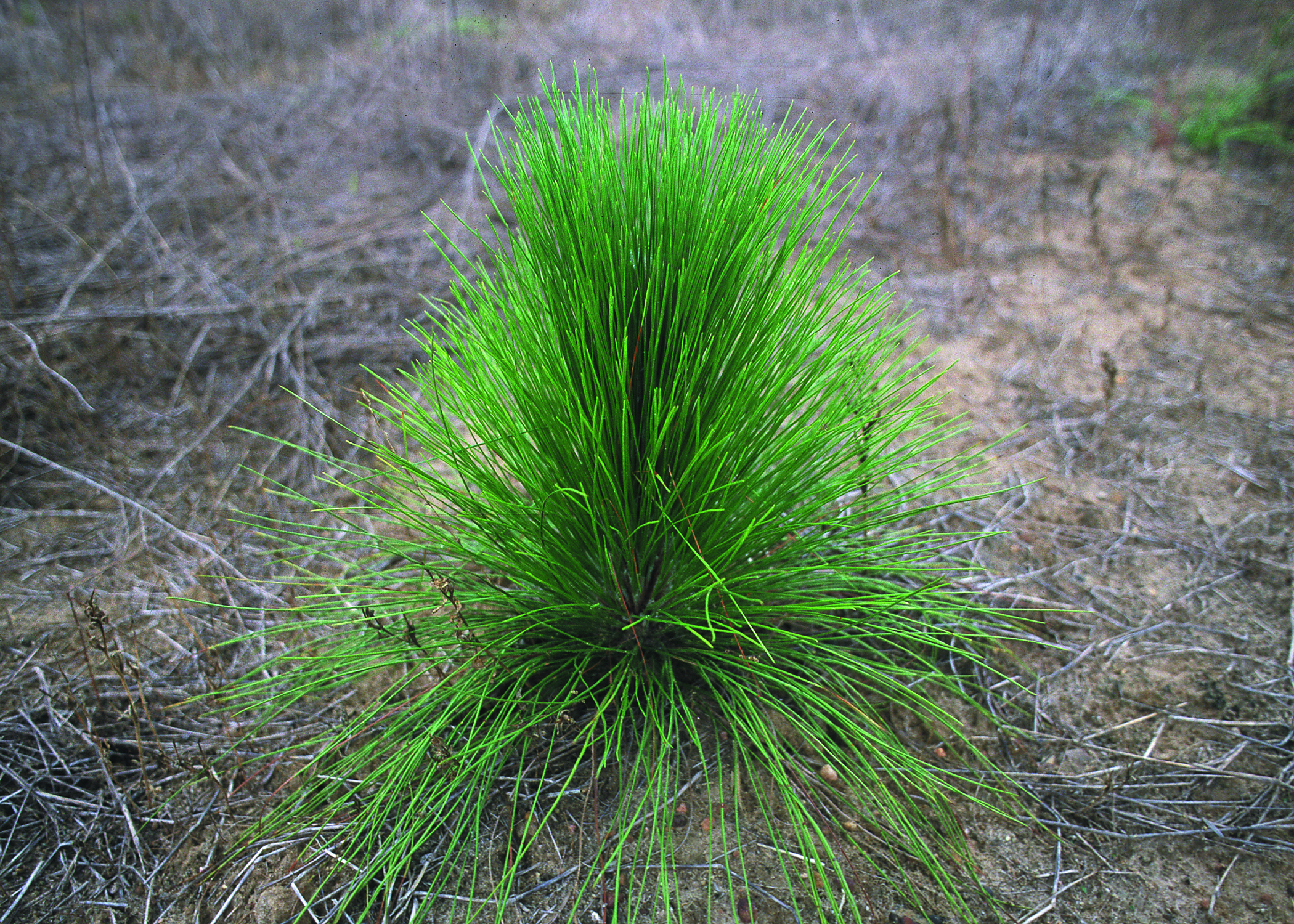 A longleaf pine after one year growth period.